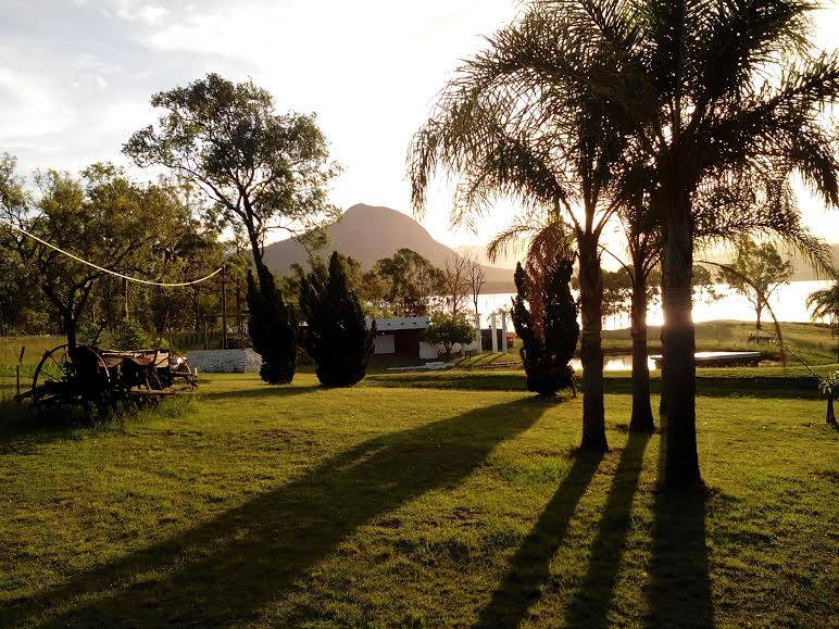 The Lake Theatre, where the annual performance of The Moogerah Passion Play takes place